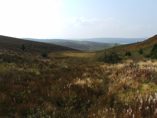 Mynydd Hiraethog., 3 km from Nilig, Denbighshire/Sir Ddinbych, Great Britain. Looking over Mynydd Hiraethog from near Llech Daniel.